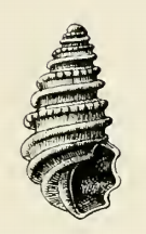 Odostomia aepynota Dall & Bartsch, 1909; Pyramidellidae